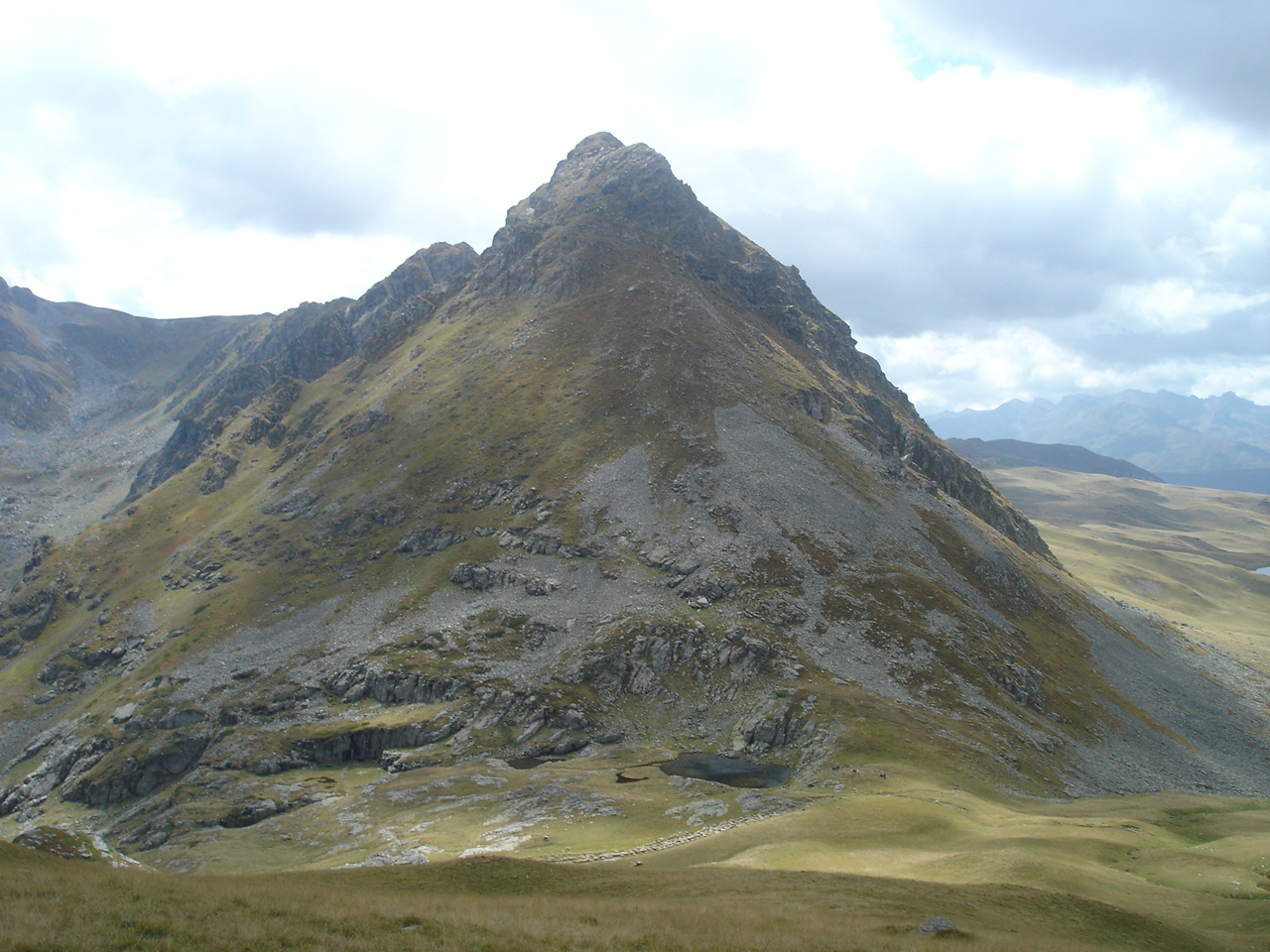 Mala (Smaller) Vraca peak on Shar mountain, Macedonia